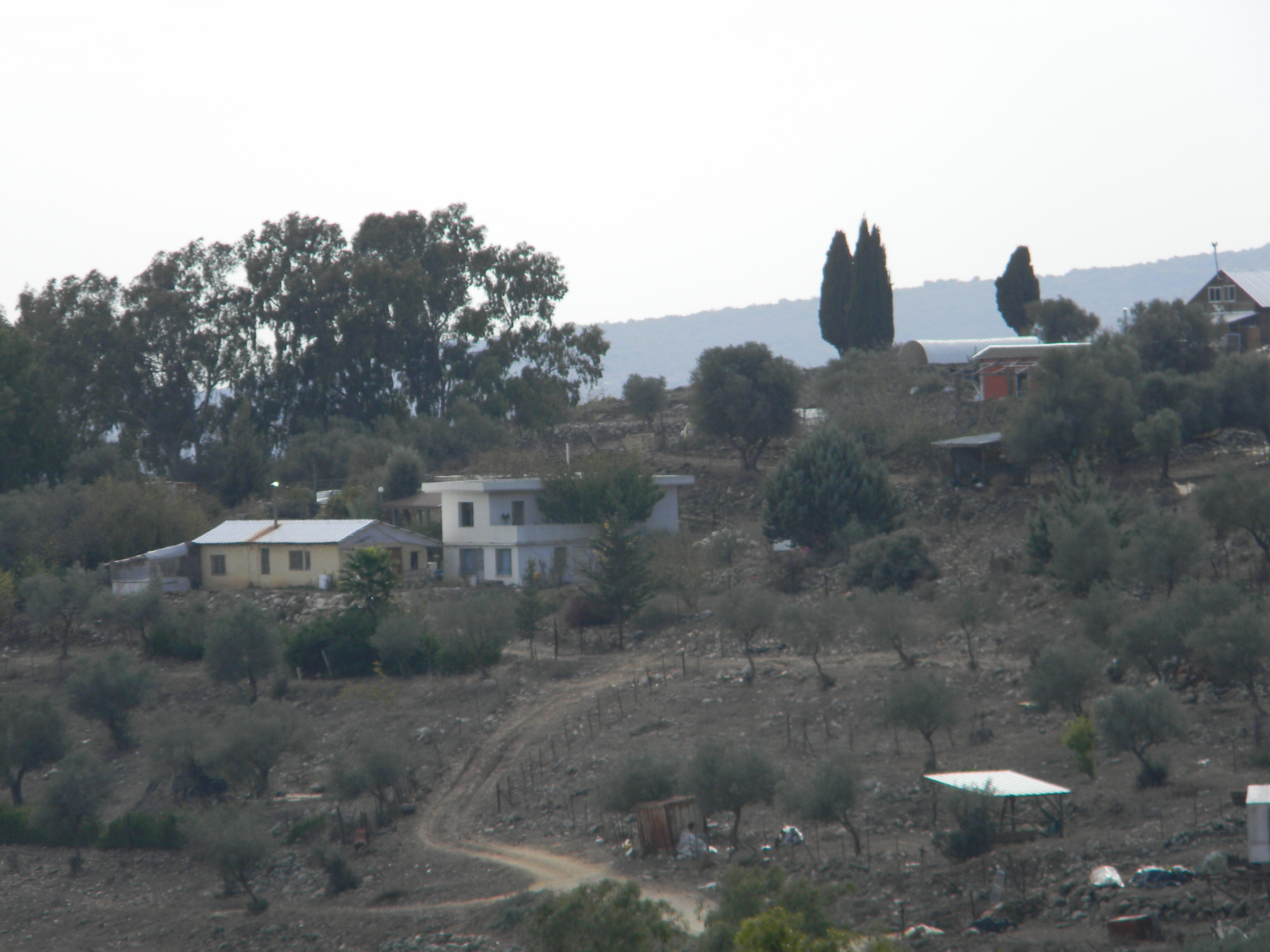 Kadita is a settlement in Upper Galilee.